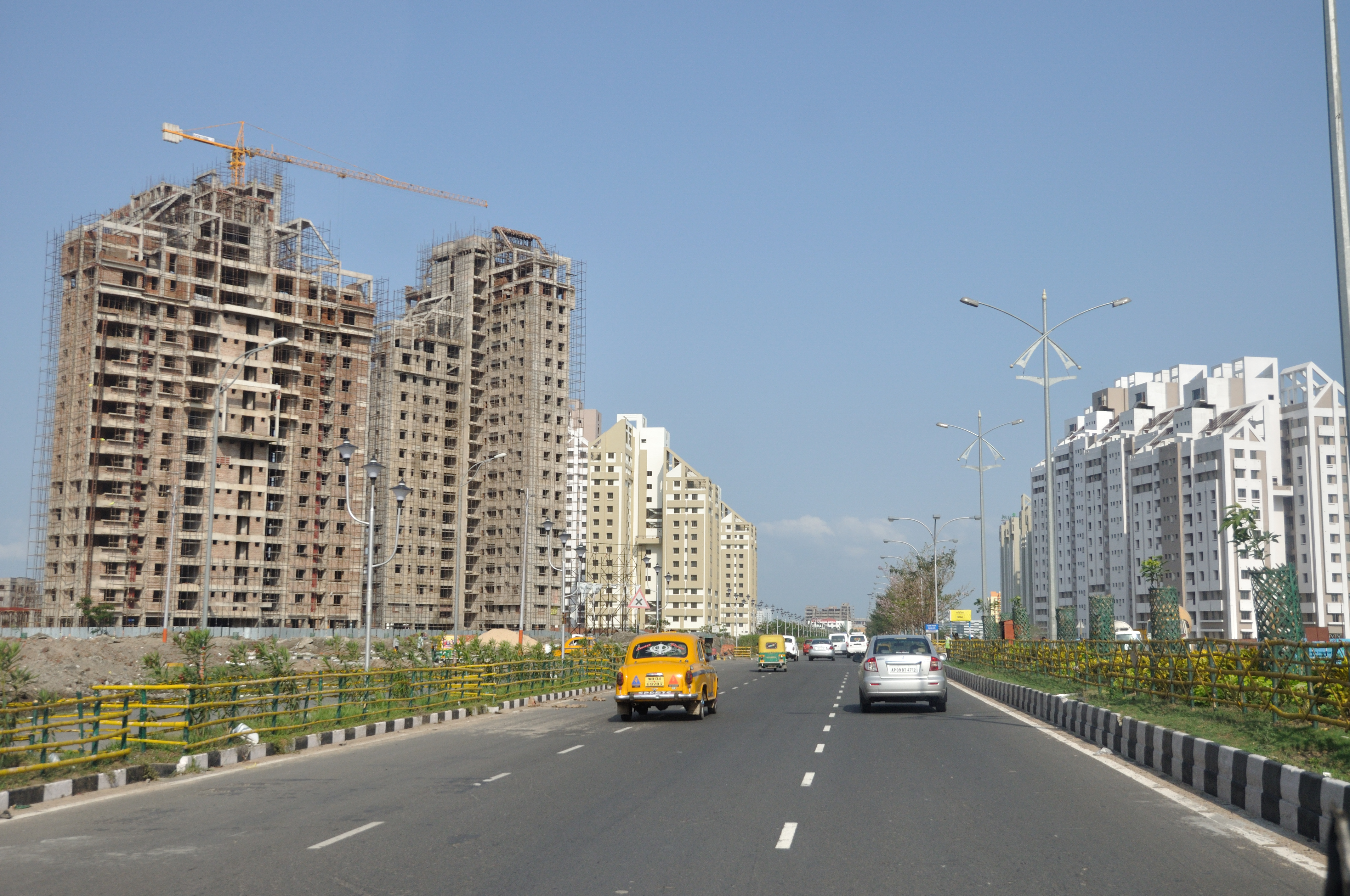 Rajarhat, Norh 24 Parganas, West Bengal.